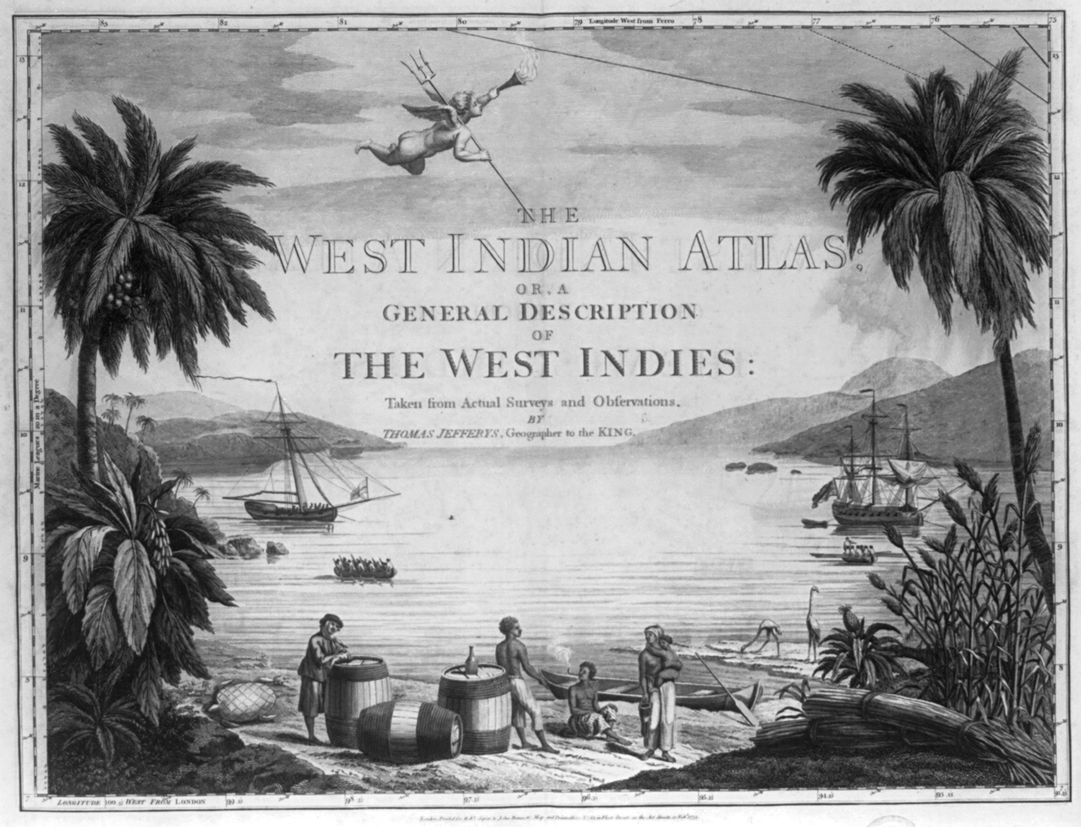 Title page from The West Indian Atlas. A scene in the West Indies showing Natives on the beach with a British sailor and three large casks, and two ships in the harbor.